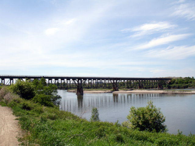 CN Rail (Grand Trunk) bridge in Saskatoon, Saskatchewan, Canada. Built in 1914 by the Grand Trunk Railway, the bridge became the property of the Canadian National Railway in 1923 when Grand Trunk amalgamated with CN.VIA Rail's Canadian passenger train uses this bridge.